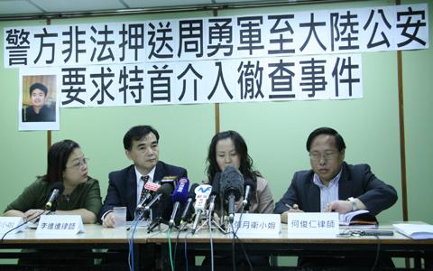 Zhou_family_and_friends_held_press_conference_in_Hong_Kong